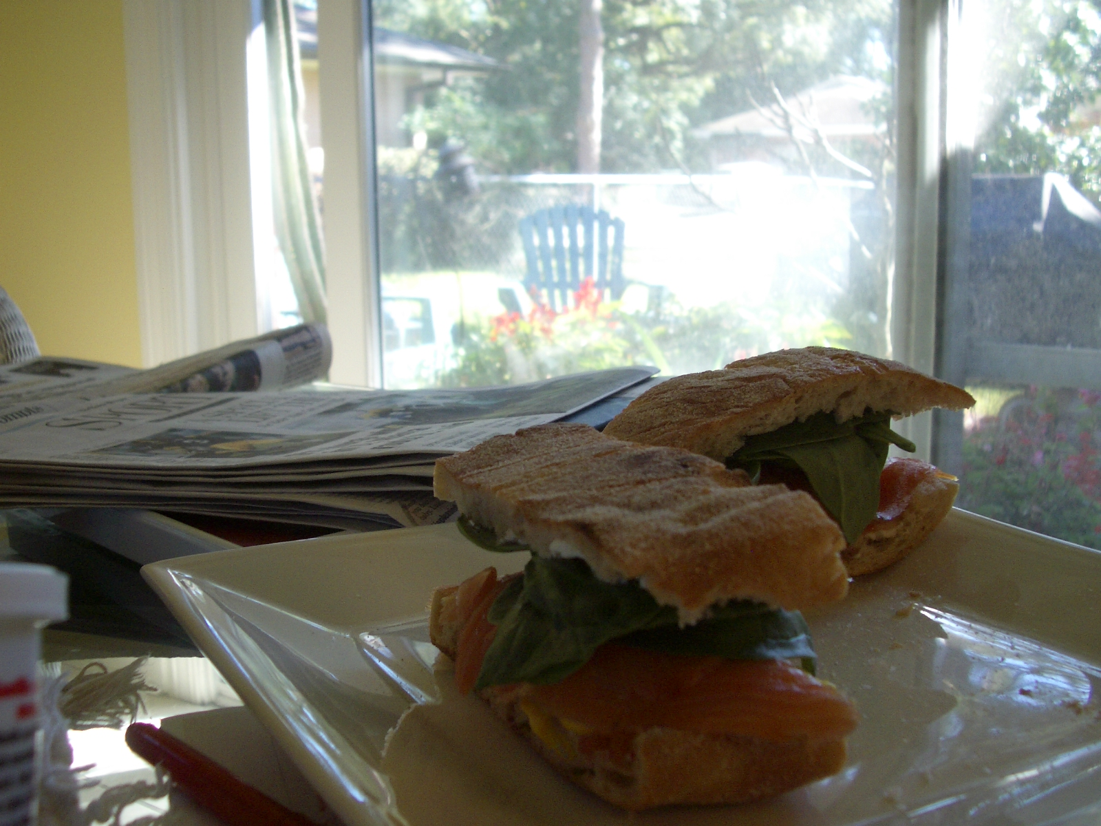 breakfast + paper + perfect new orleans weather ciabatta + herb boursin + scrambled eggs + smoked salmon + tomato + spinach = best sunday morning